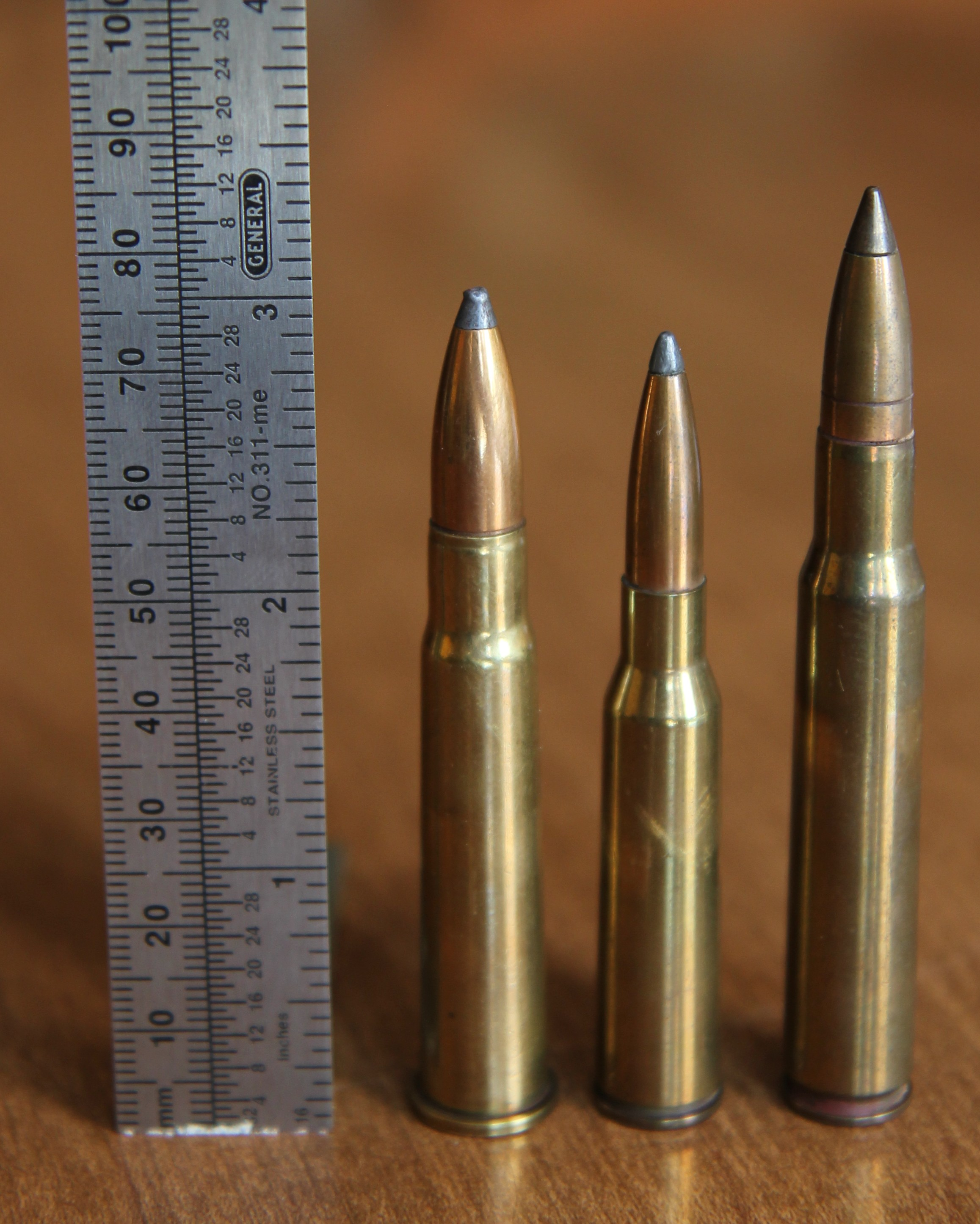 A 6.5x50mm Japanese cartridge next to a metric/imperial ruler with .303 British and .30/06 cartridges for comparison.